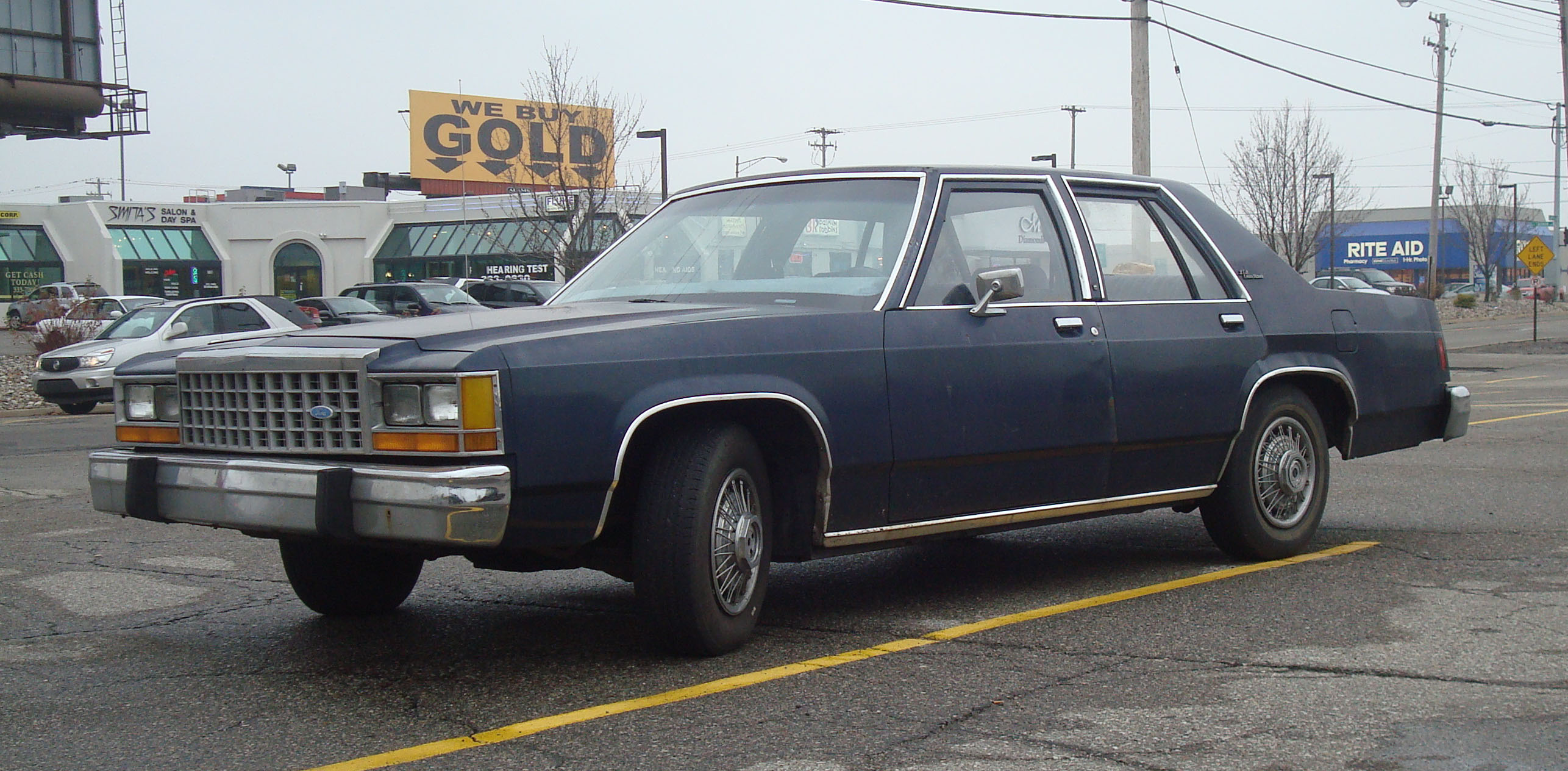 1983-87 Ford LTD Crown Victoria S photographed in Lansing, Michigan.